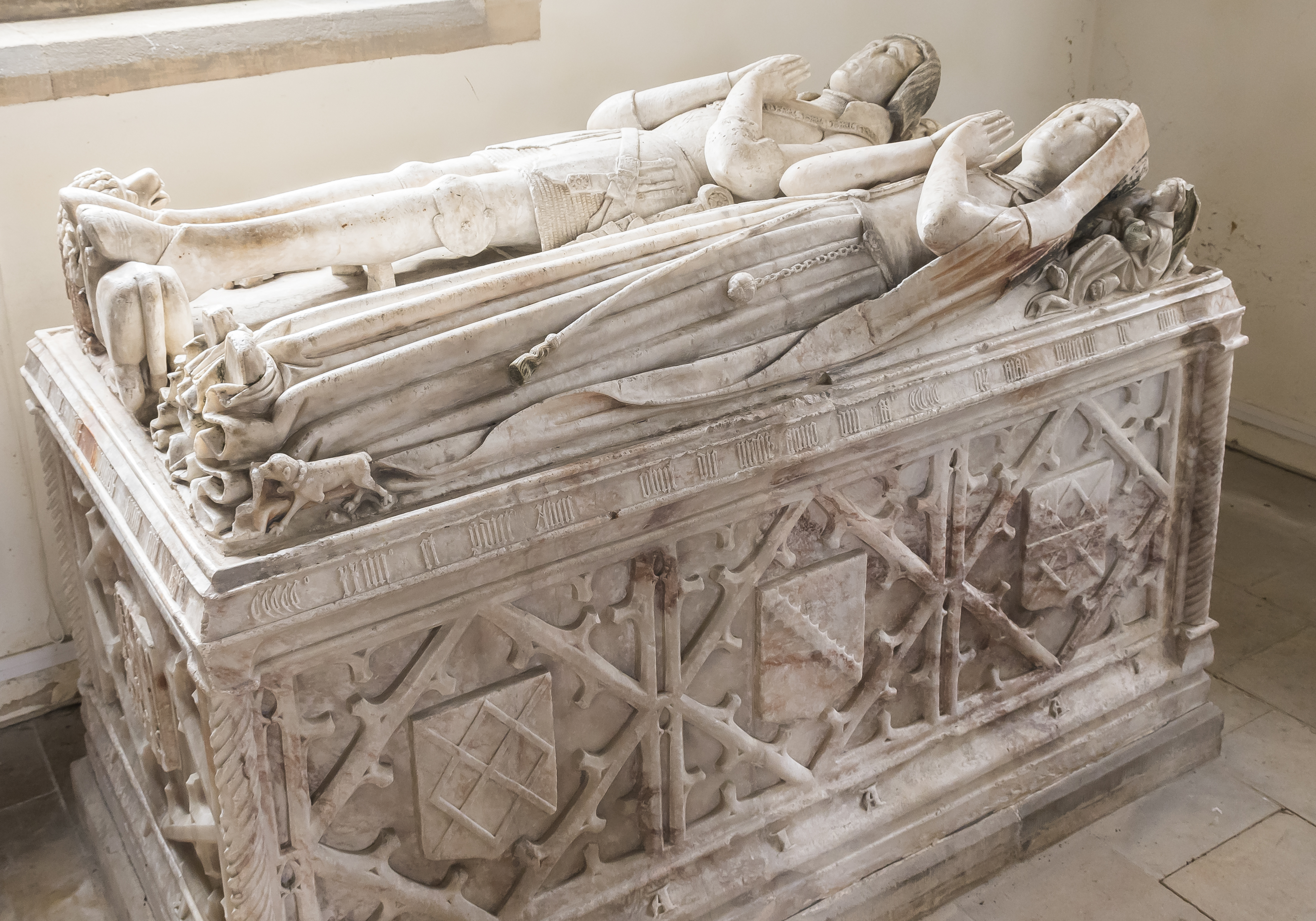 The earliest of the Harrington monuments is now at the west end of the south aisle and is that of the second John Harrington, who died in 1524, and his wife Alice (née Southill). He was son of Robert & Maude, and High Sheriff of Rutland. They had 8 children, including James, whose memorial is also in the church. At one time in the past it stood in the tower, for once the organ stood where the tomb now is and on Sundays the school children, under the supervision of the Vicar’s daughter, formed some sort of choir. At John Harrington’s feet are a lion and a small figure of a bedesman, while close to his wife’s feet two dogs nibble the hem of her skirt.